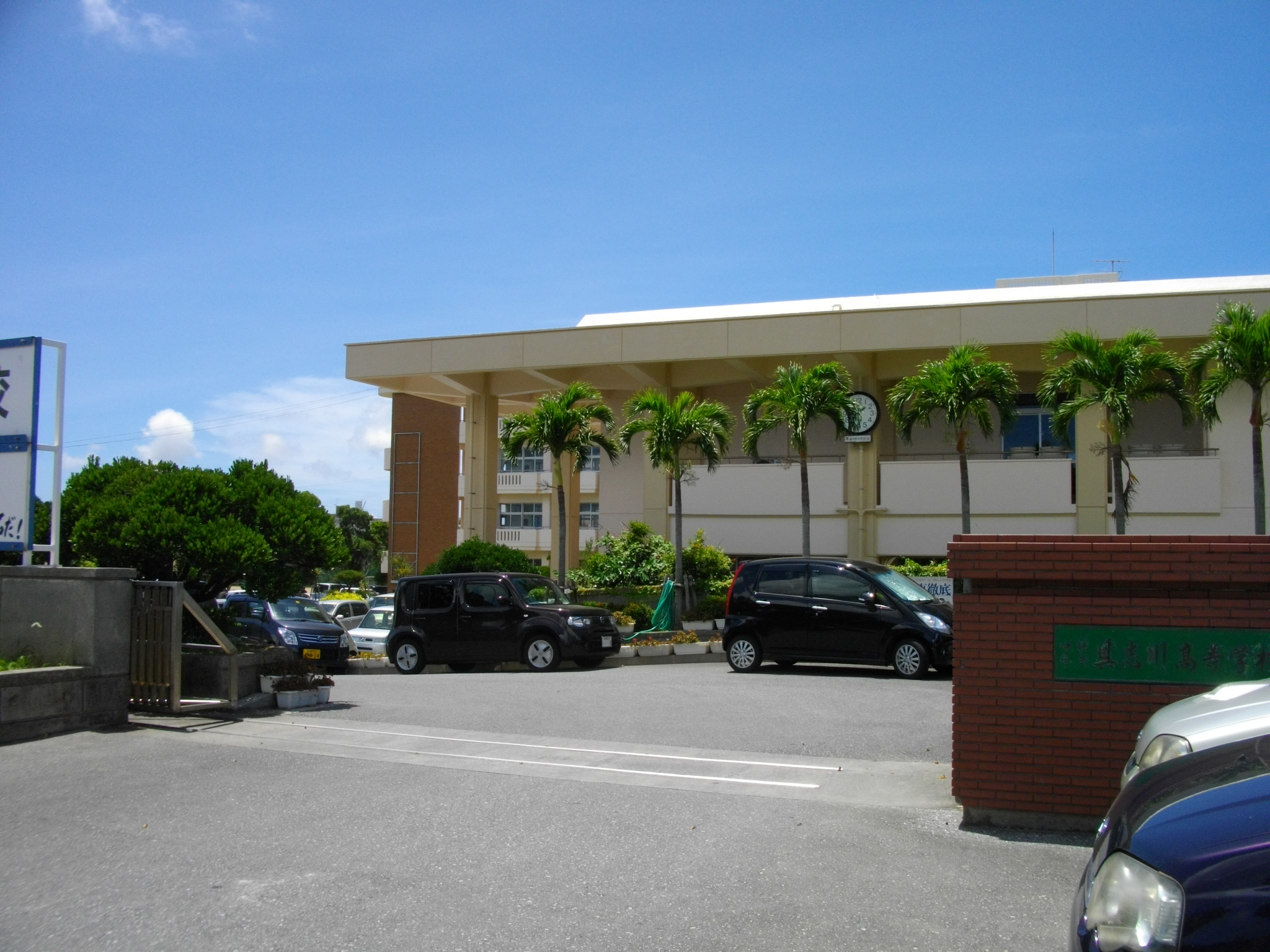 Gushikawa High School